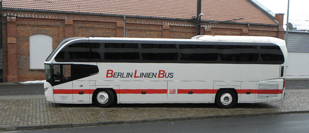 Pictures from Food